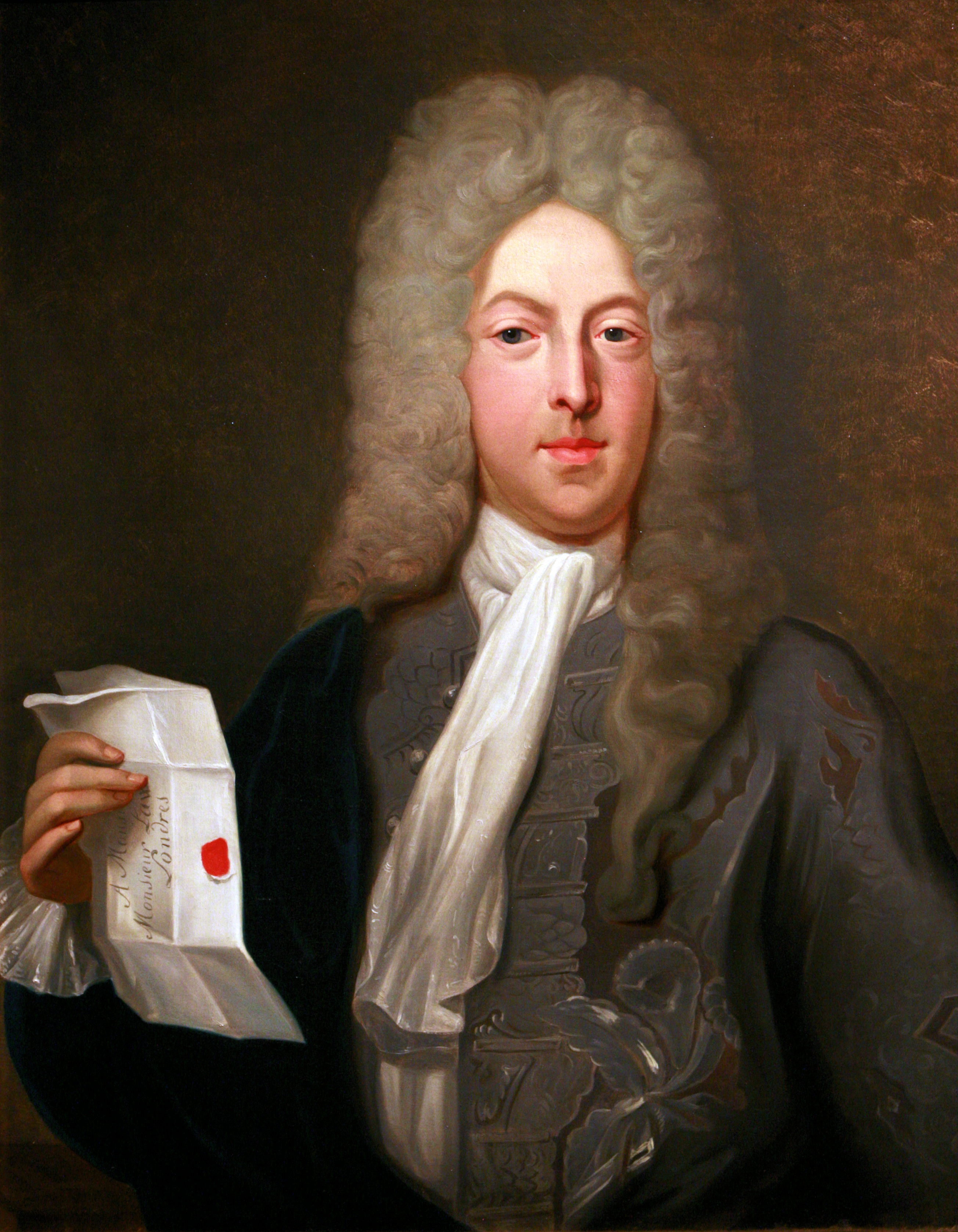 Portrait of John Law, by Casimir Balthazar